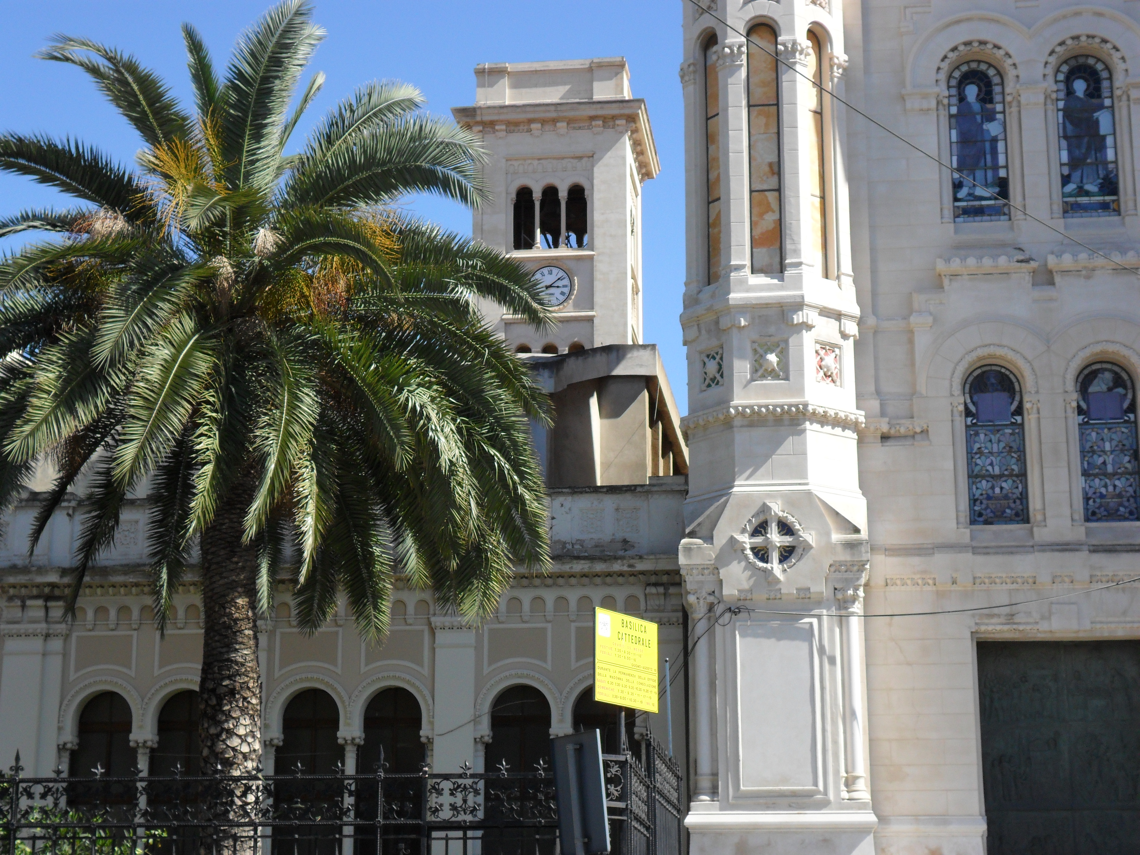 The cathedral